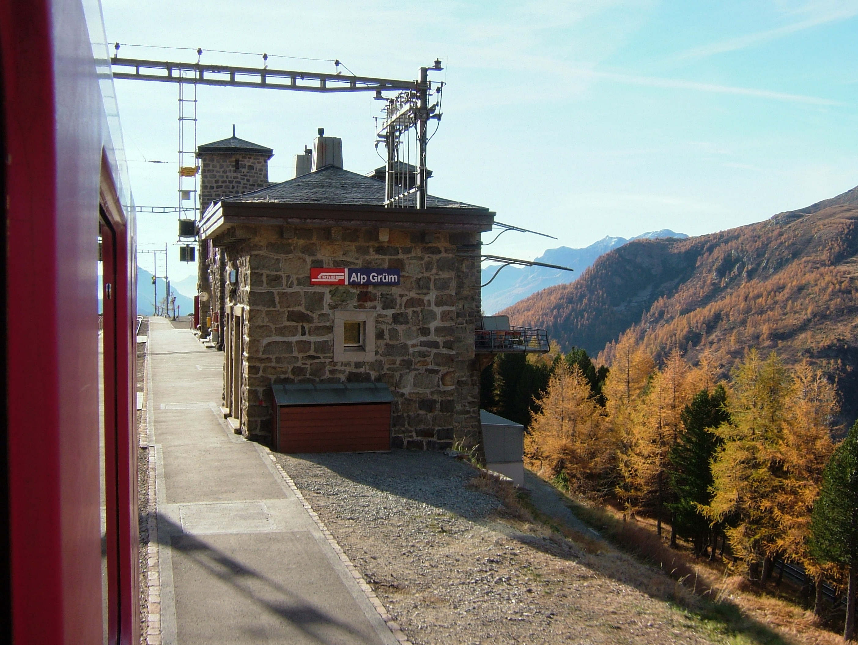 Bernina railwayAlp Grüm train station